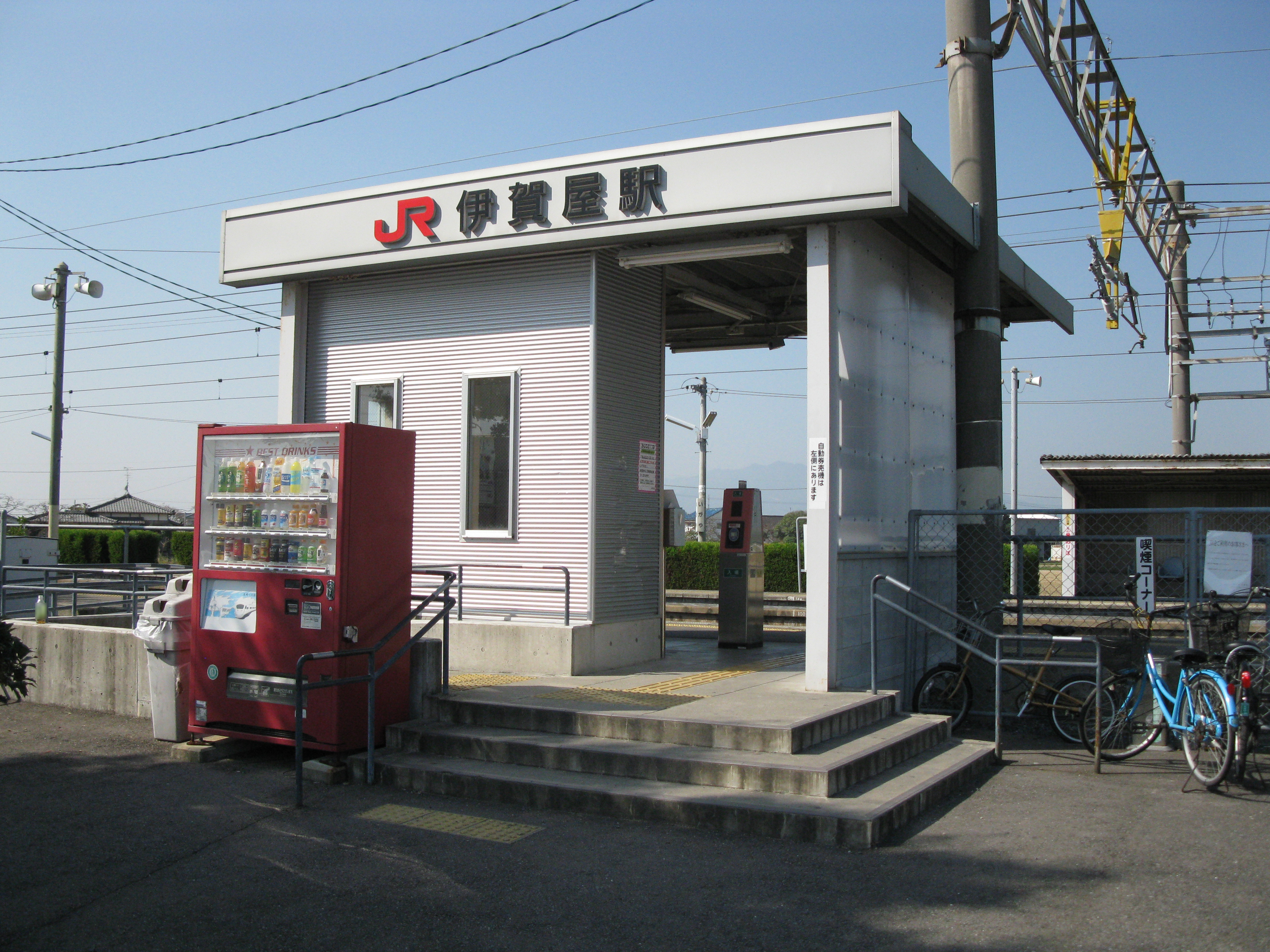 Igaya Station building (Kyushu Railway Nagasaki Main Line)